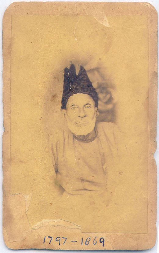 The only surviving photograph of Mirza Ghalib (circa 1860-1869)